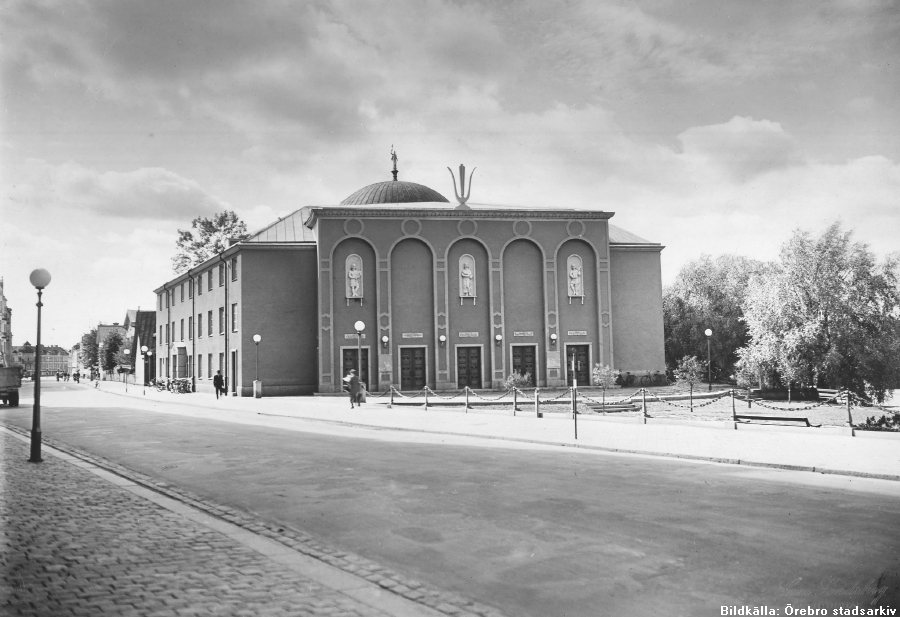 Örebro concert hall, 1940ies